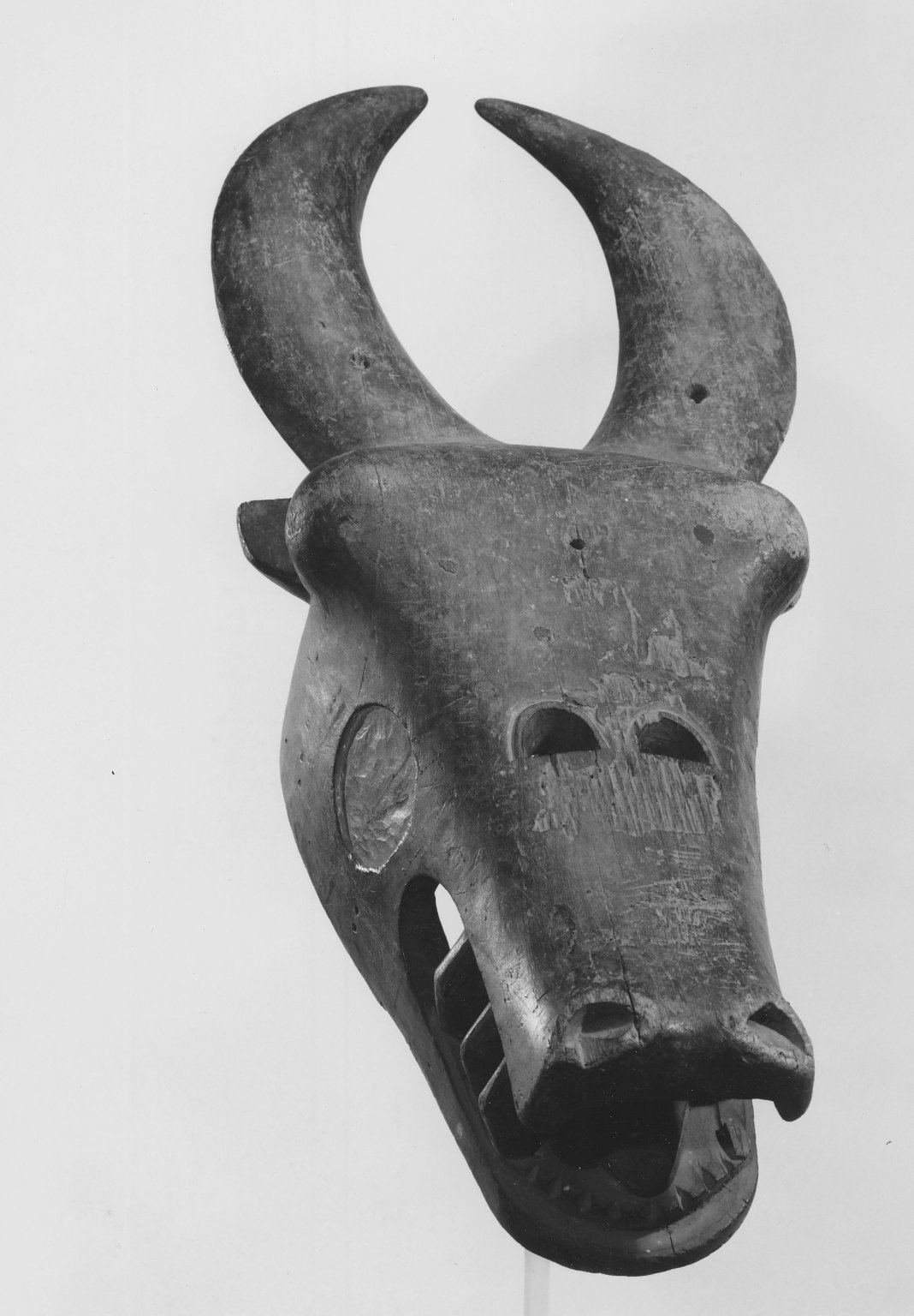 Mask for Gbain Society